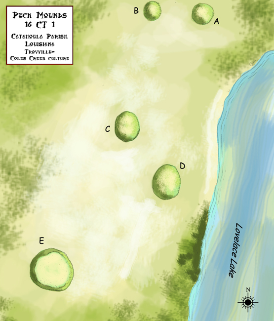 A diagram showing the placement of mounds at the Peck Mounds site (16 CT 1), Troyville-Coles Creek culture) in Catahoula Parish, Louisiana.